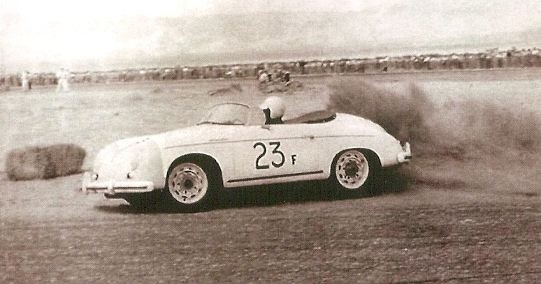 James Dean and Porsche Speedster #23F at Palm Springs Races, March, 1955. Copyright Chad White with permission. James Dean At Speed, 2005 Lee Raskin, author.